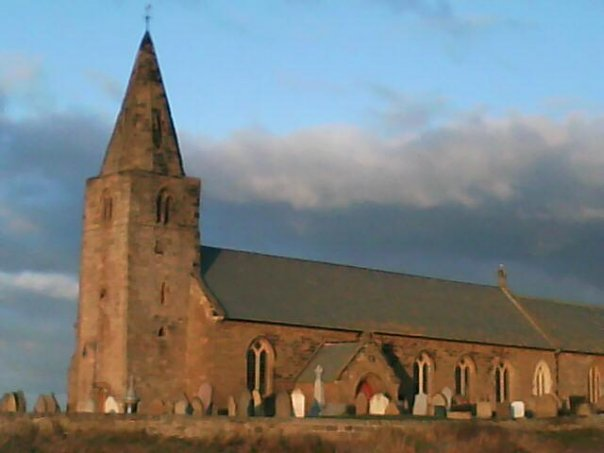 The thirteenth century Parish Church of St Bartholomew, Newbiggin-by-the-sea, Northumberland, England